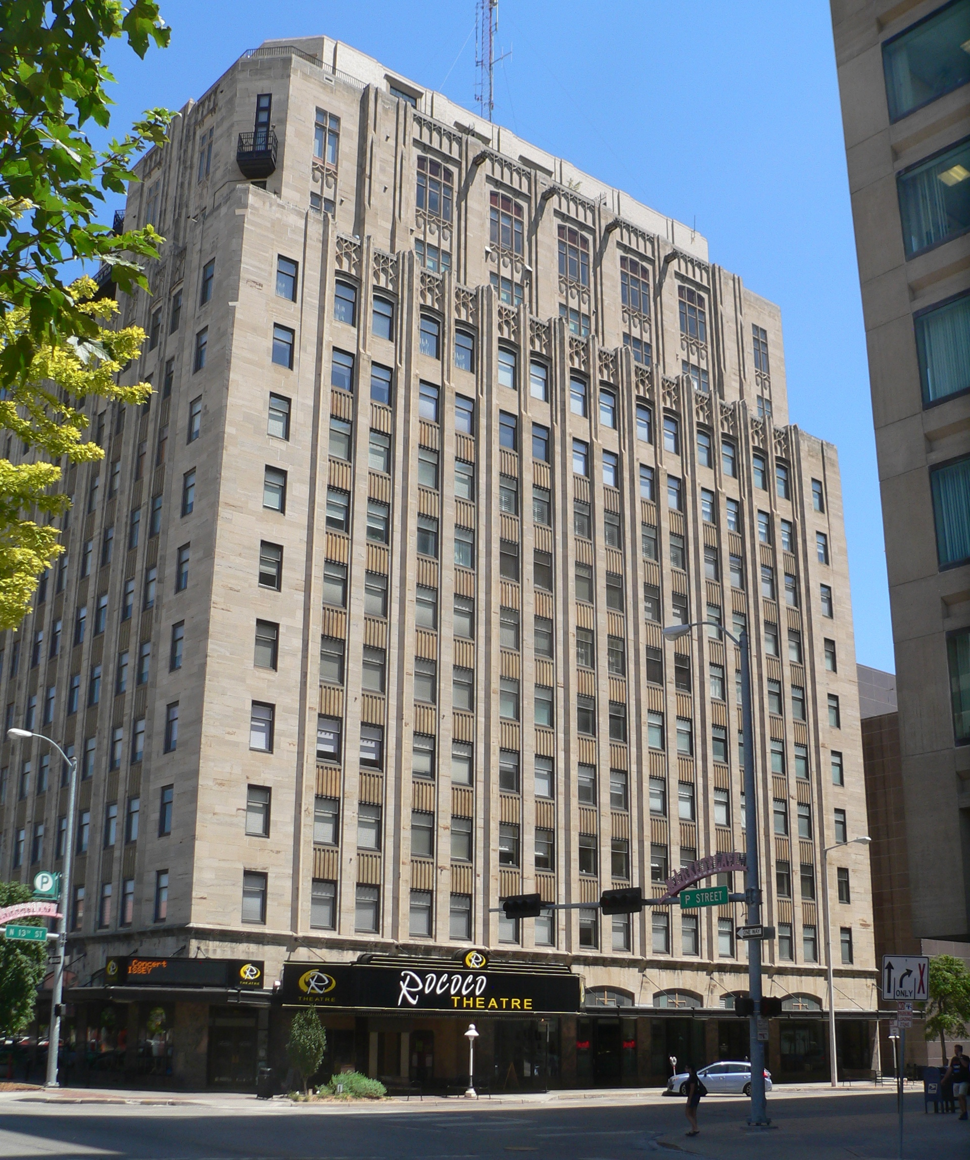 Stuart Building, located at southeast corner of 13th and P Streets in Lincoln, Nebraska; seen from the northwest.